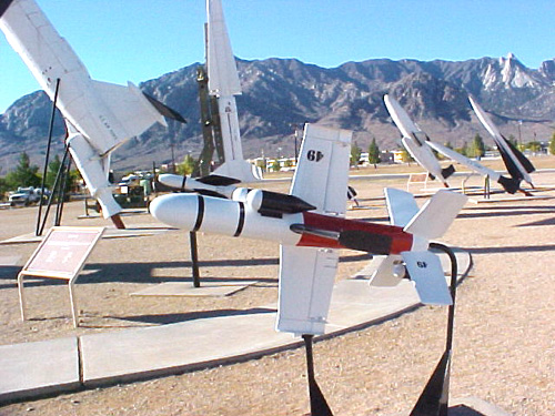 The Dart missile. From the source, At the time this was the Army's smallest missile but it was capable of blasting through the heaviest enemy armor. It was designed to be fired from armored personnel carriers, trucks and helicopters. A gunner guided the missile to its target by sending commands via a wire connection between the launcher and the missile.